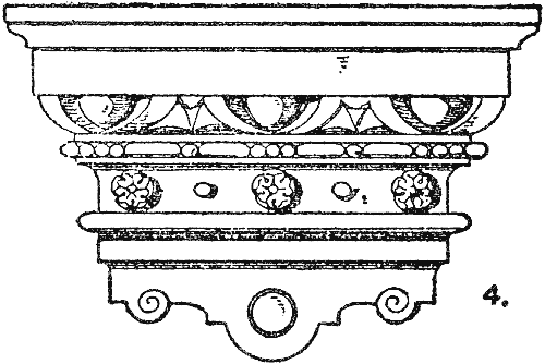 Egg-and-dart molding at the top of an Ionic capital.